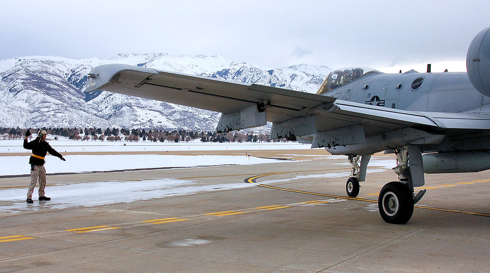 Andrew Selph, 571st Aircraft Maintenance Squadron, guides Capt. Jesse McCulloch 514th Flight Test Squadron as he taxis Aircraft 80-0172 onto the Hill AFB runway. Captain McCulloch flew the upgraded A-10C top Moody AFB, Ga. (U.S. Air Force photo by Bill Orndorff)